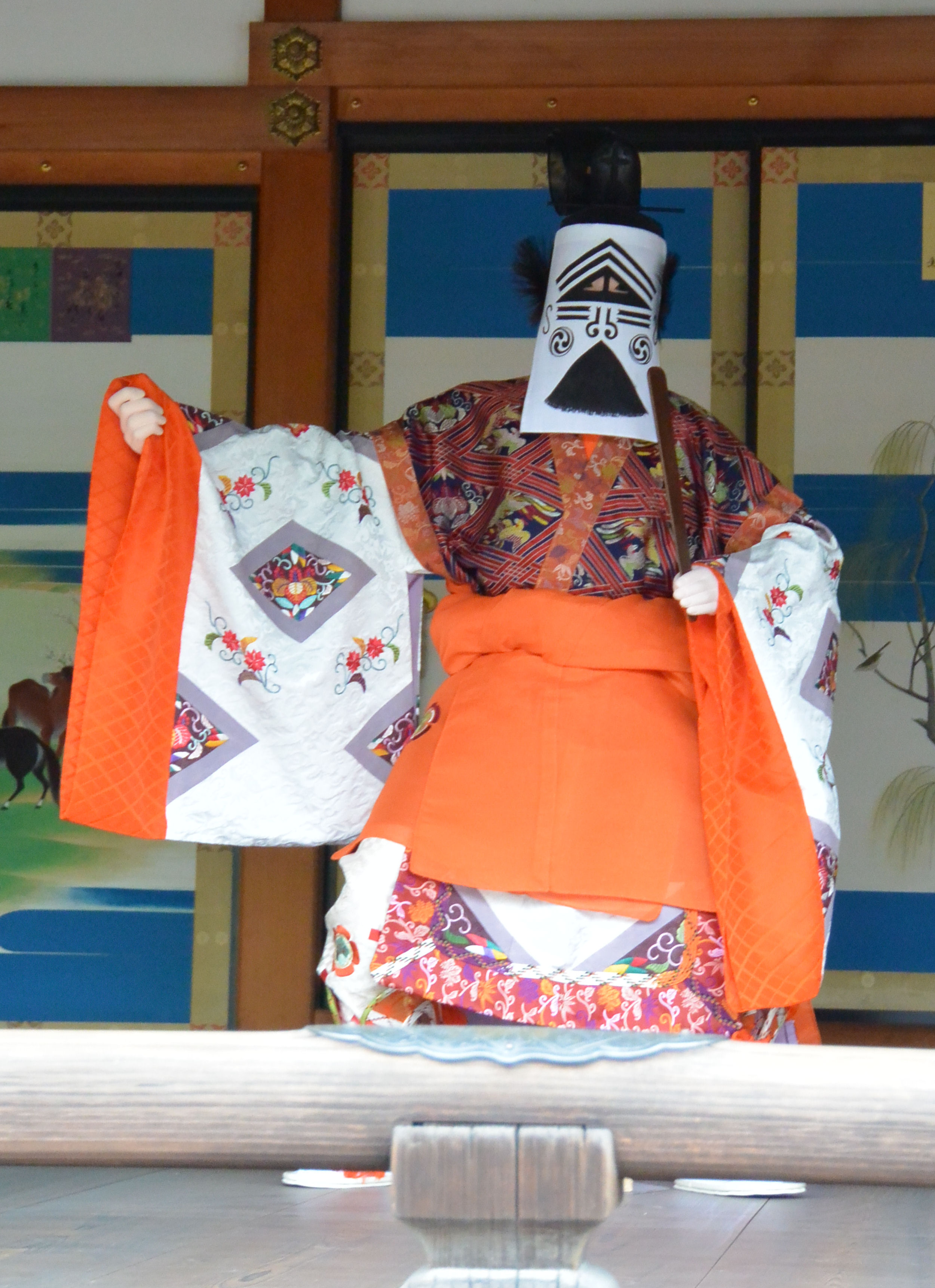 The figure of traditional dance Ama